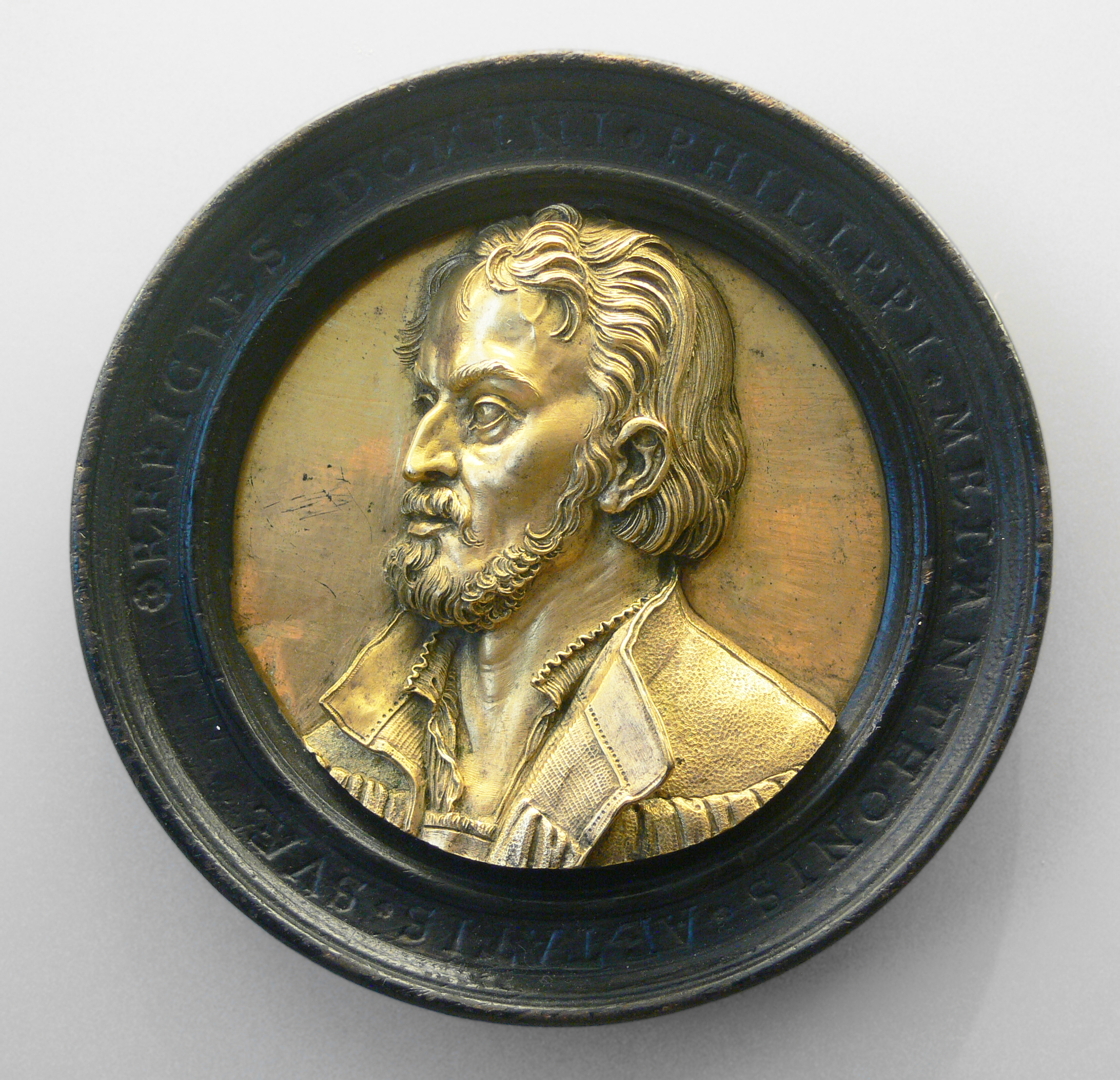 Georg Schweigger: Effigy of Philipp Melanchthon, Nuremberg 1638, gilded bronze. Skulpturensammlung (inv. no. 5856, mentioned in the inventory of the princely „Kunstkammer“ collection in 1688), Bode-Museum Berlin.